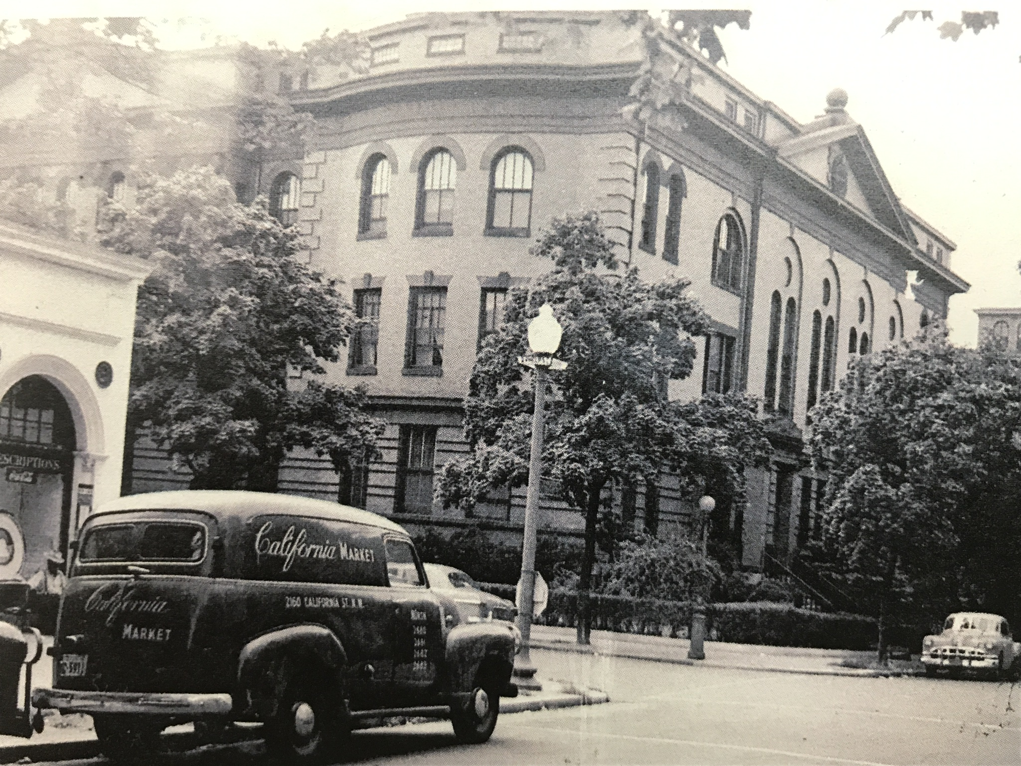 old picture 1967